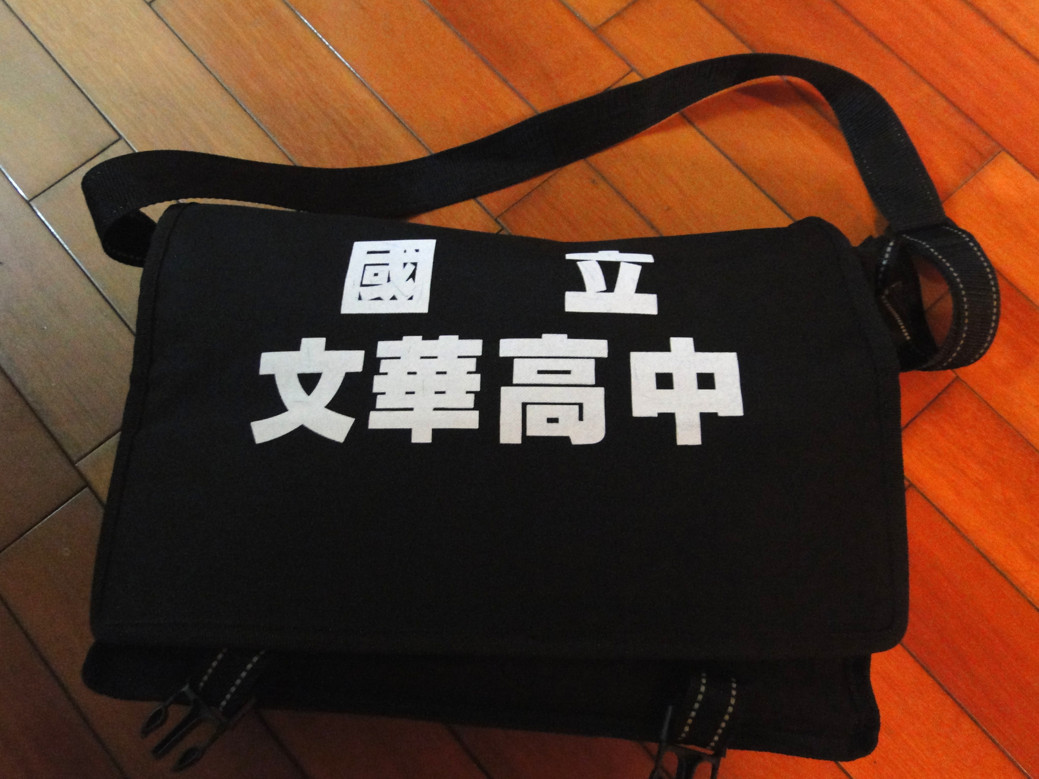 The school bag of National Taichung Wen-Hua Senior High School. 中文（台灣）: 國立台中文華高級中學書包